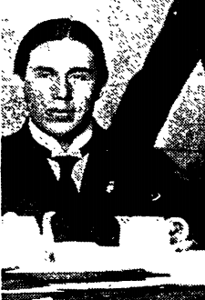 Detail of Charles Lapworth, editor of the Daily Herald, from a meeting between various labour movement representatives with Jim Larkin